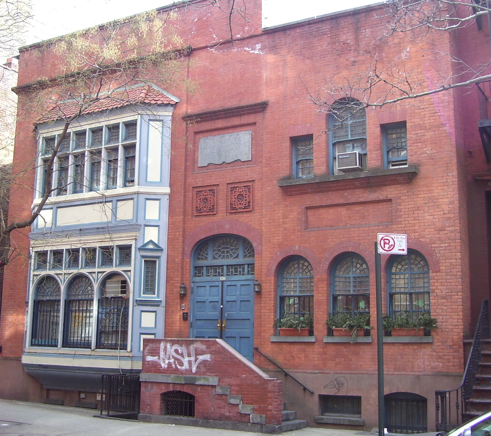 The building at 120 West 16th Street between Sixth and Seventh Avenues in the Chelsea neighborhood of Manhattan, New York City, was built in 1878 for the New York House and School of Industry (founded 1851), an institution designed to help destitute women by training them in the needlework trade. The bulding, one of the first in the city in the Queen Anne style, was designed by Sidney V. Stratton, and restored by Anderson Associates. It was designated a NYC landmark in 1990, and is currently used by the Young Adults Institute. {Sources: Guide to NYC Landmarks (4th ed.) and AIA Guide to NYC (4th ed.))